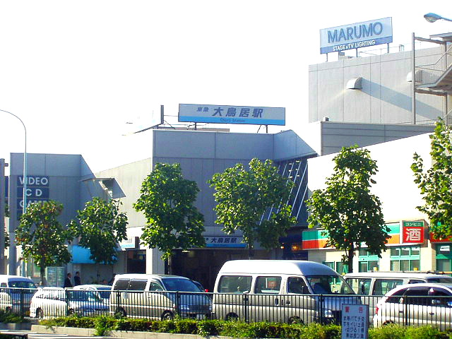 Otorii Station, which locates on the intersection between Kanjo 8 and Sangyo doro